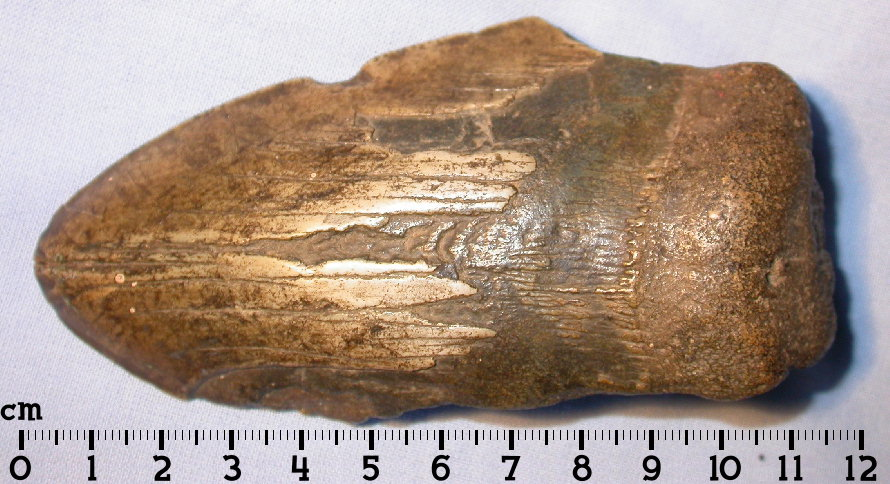 Megalodon tooth photo with centimeter ruler for scale.